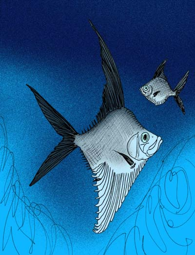 Reconstruction of the extinct clupeomorph fish, Rhombichthys intocabilis, from the Cenomanian of Lebanon